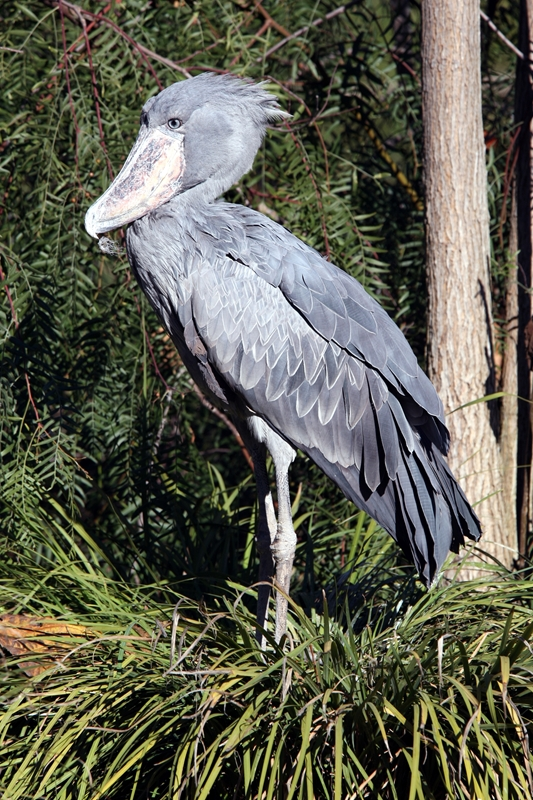 Shoebill, also known as Whalehead at San Diego Zoo, USA.